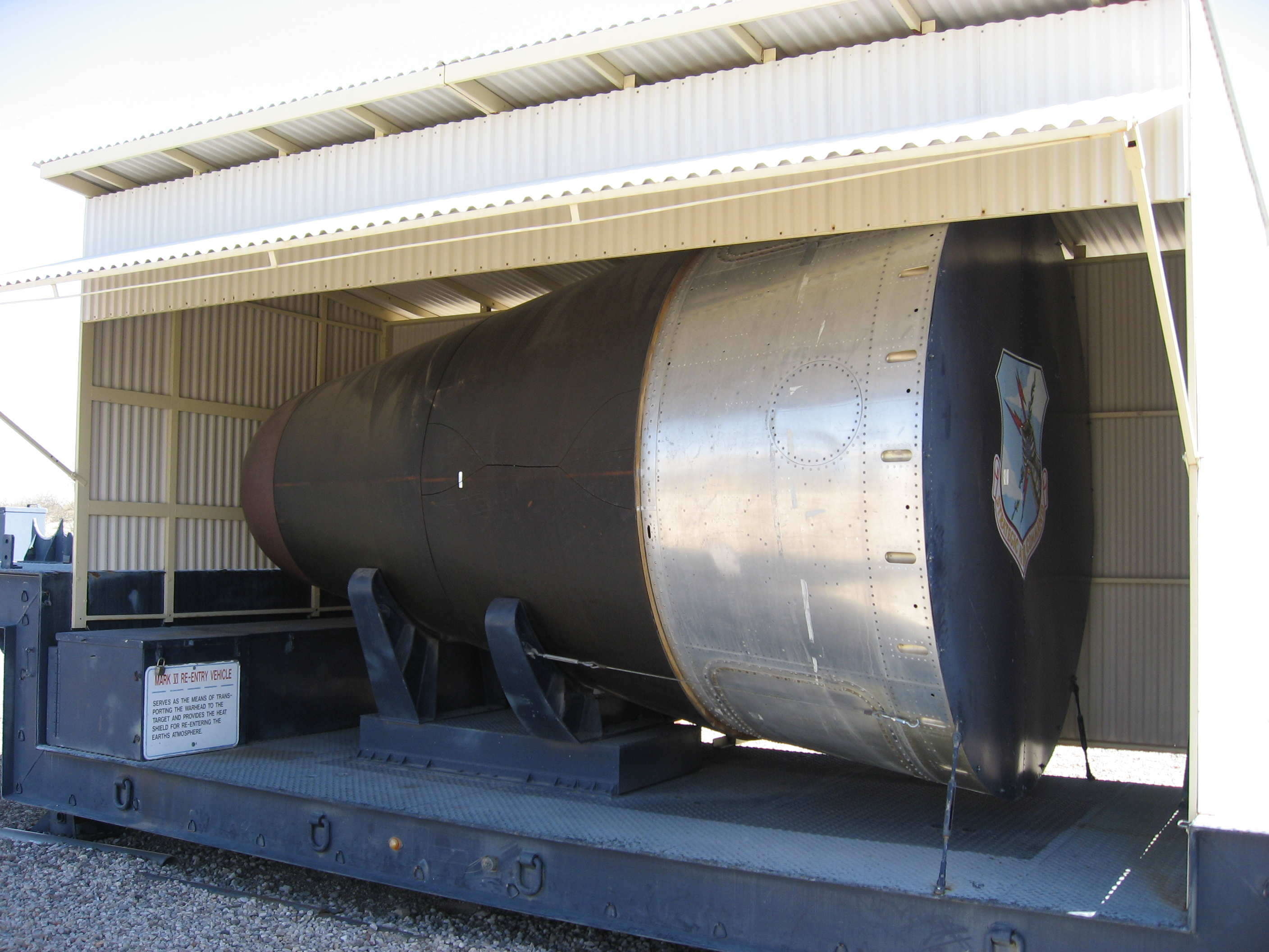 View of Titan Missile II re-entry module (used to house the 9 megaton nuclear bomb) on display at the Titan Missile Museum.